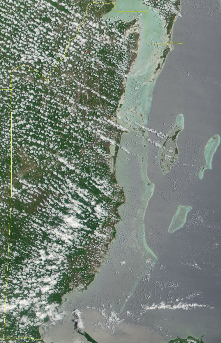 Satellite image of Belize in May 2001.